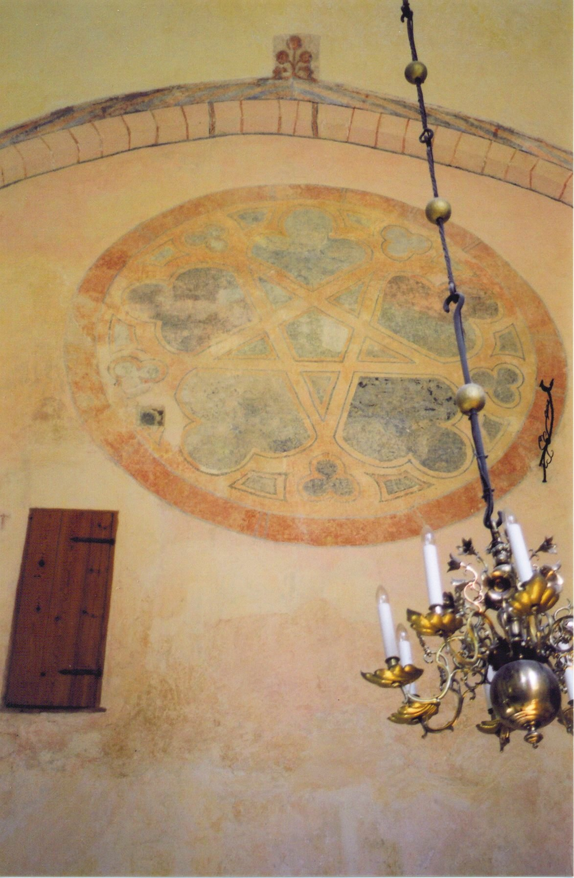 Kaarma Church, Estonia